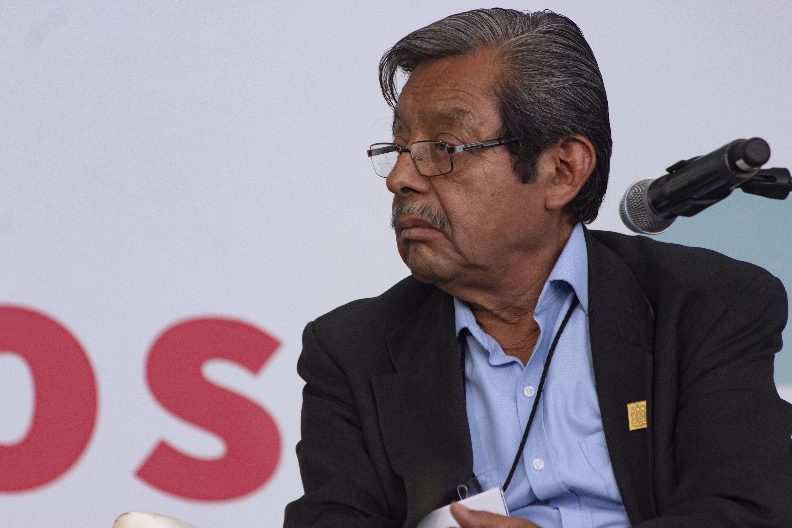 Natalio Hernández at the Miguel Leon Portilla's tribute in Mexico City. Sunday, 13 October, 2019. Picture by Jesus Murillo / Secretaria de Cultura de la Ciudad de Mexico.